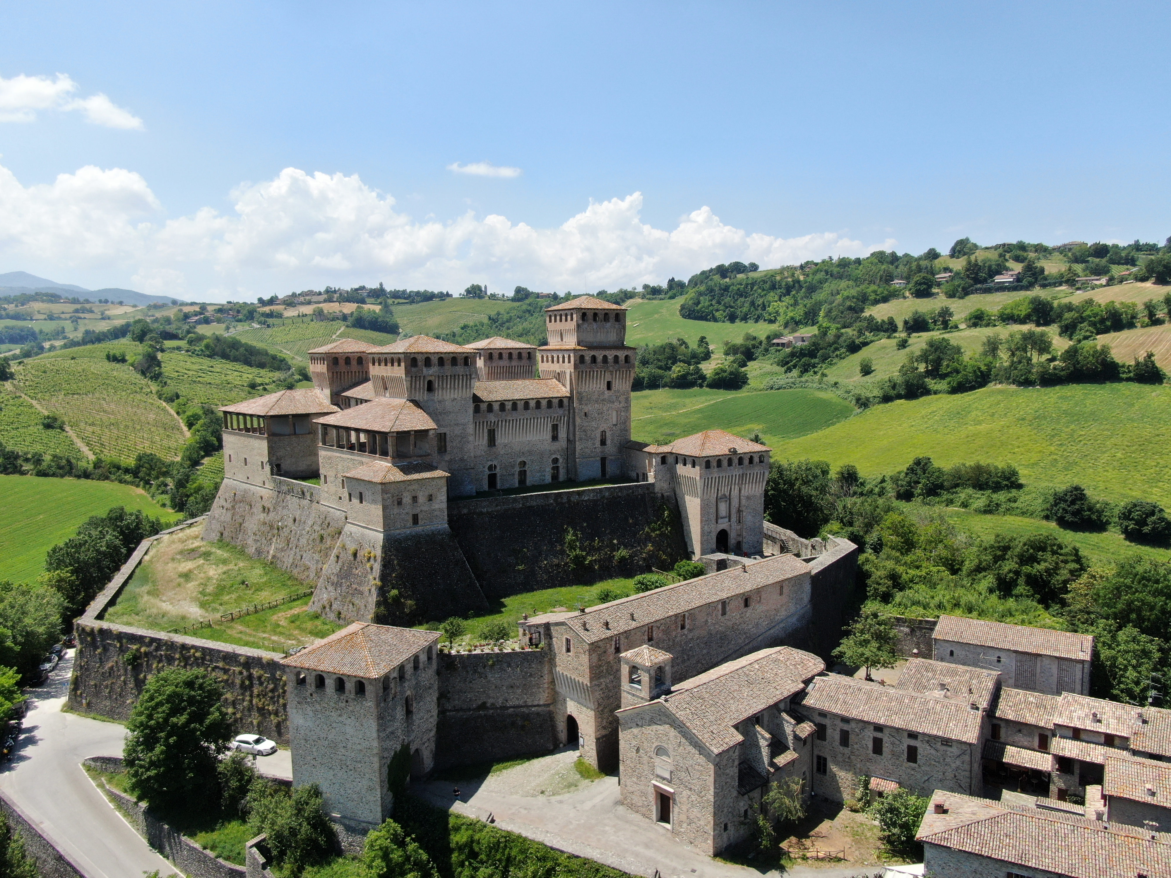 Castle town of Torreciara in the vicinity of Parma, Italy.